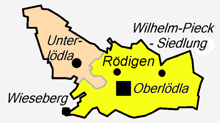 District-Maps of Lödla village.